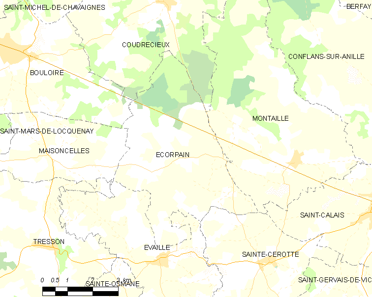 Map of French municipality